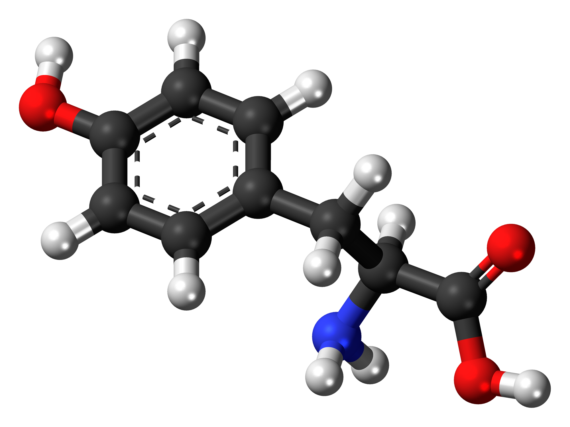 Ball-and-stick model of the tyrosine molecule, one of the 20 amino acids used to build proteins. This image shows the L isomer in neutral form. Colour code: Carbon, C: black Hydrogen, H: white Oxygen, O: red Nitrogen, N: blue